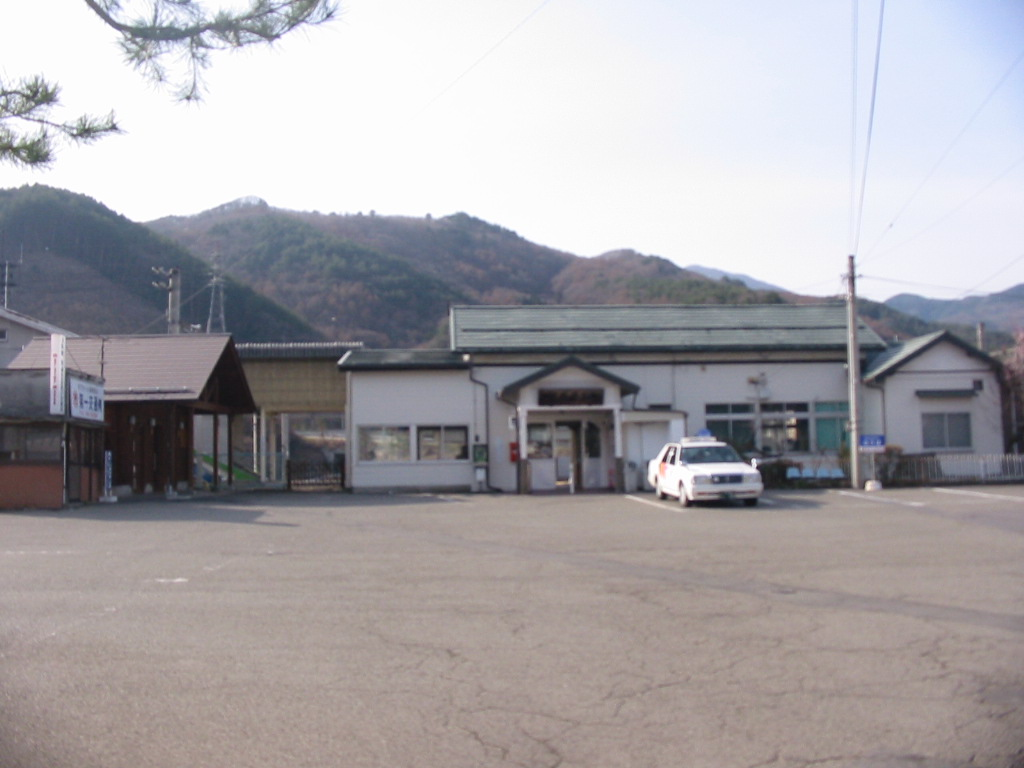 Hijirikogen Station on JR East Shinonoi Line